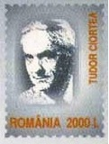 Postage stamp issued in 2003, the centenary of the birth of the Romanian composer Tudor Ciortea